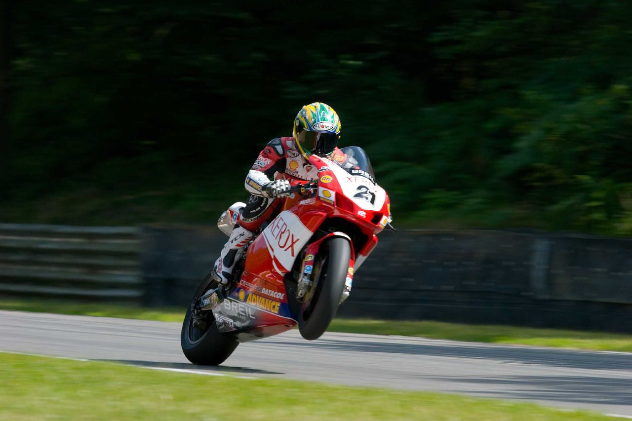 WSBK Round 10 Brands Hatch 2007